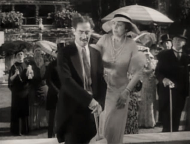 Groucho Marx and Margaret Dumont in Duck Soup (1933) - trailer (cropped screenshot)